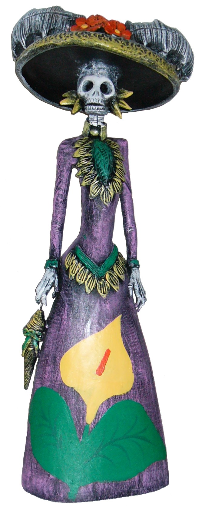 Catrina, the Lady of the Dead